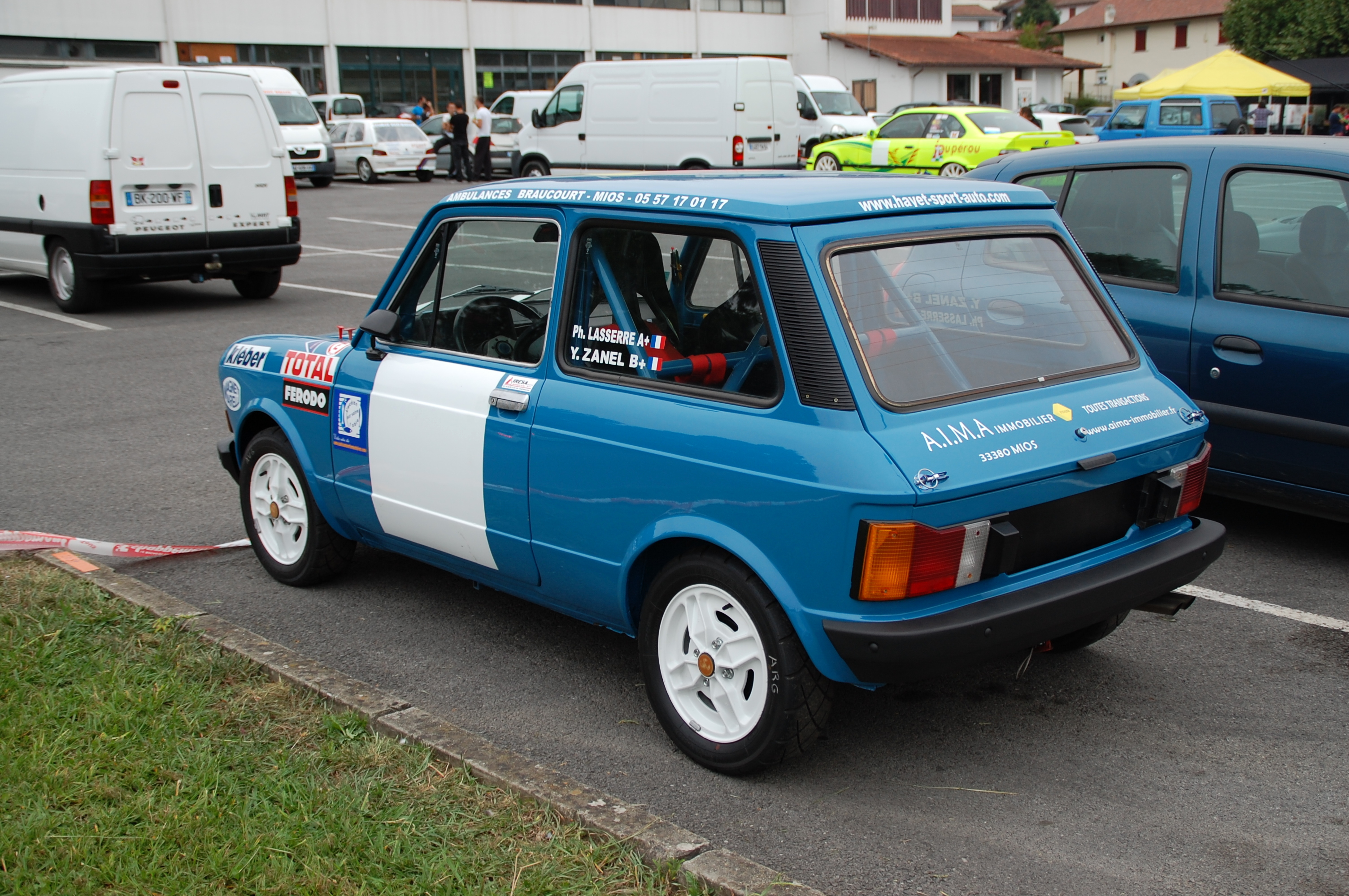 Autobianchi A112 Abarth in Hasparren.